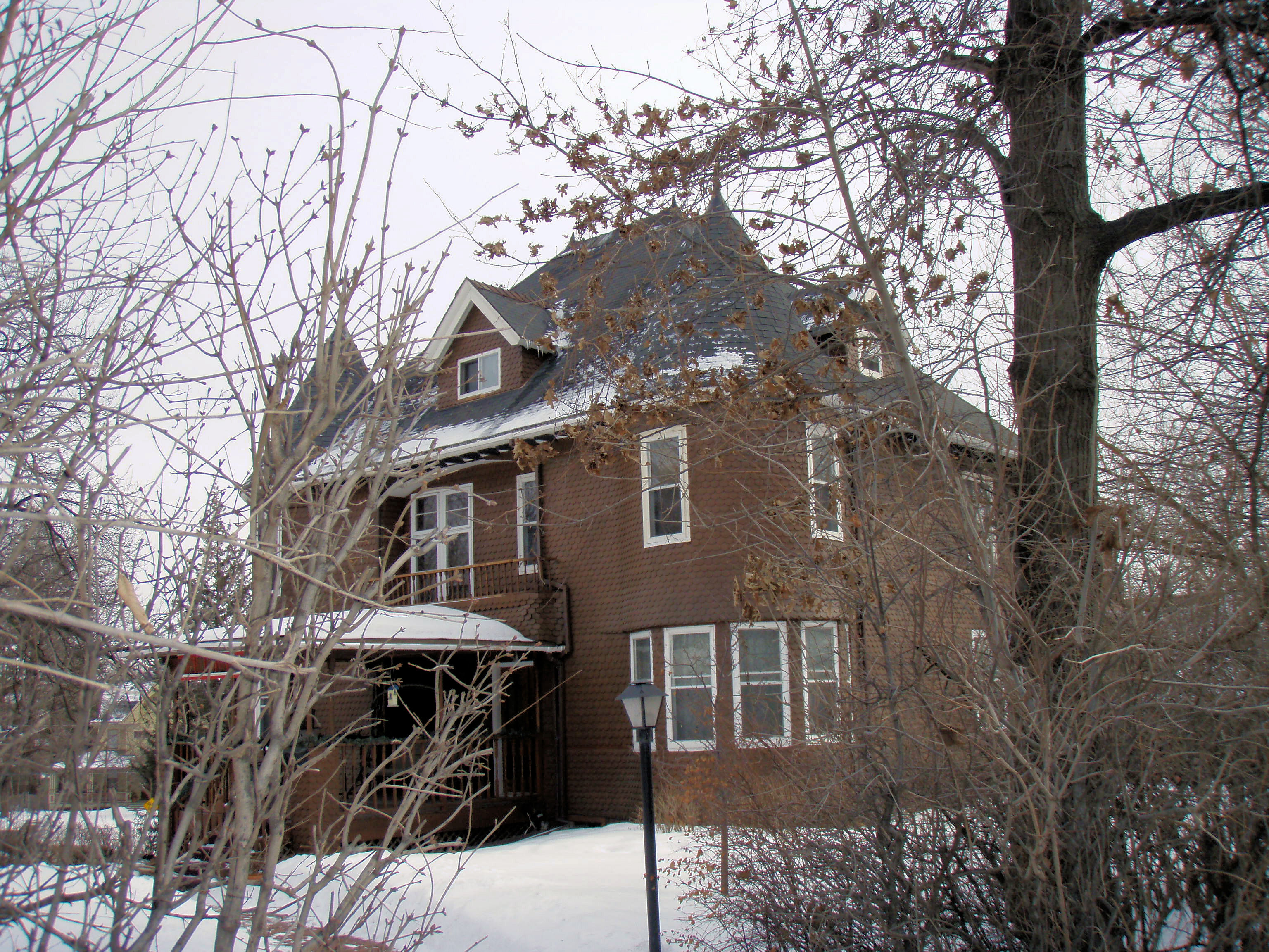 Harry W. Jones House in Minneapolis, Minnesota.